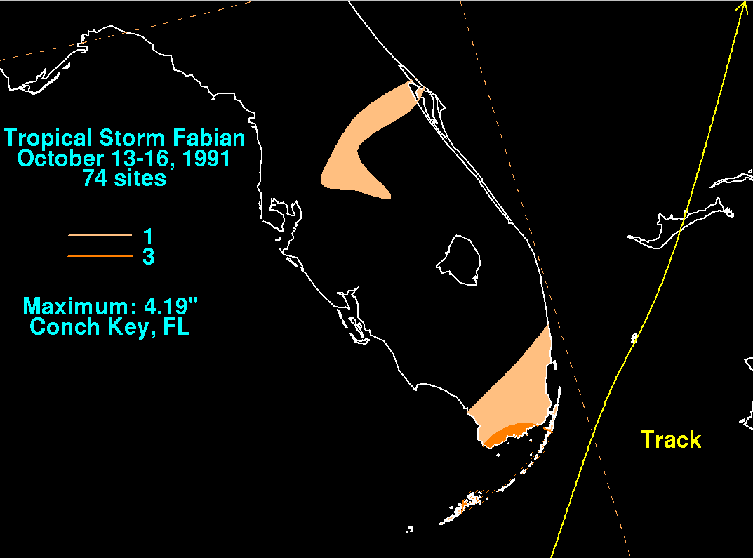 Rainfall produced by Tropical Storm Fabian during October 1991.